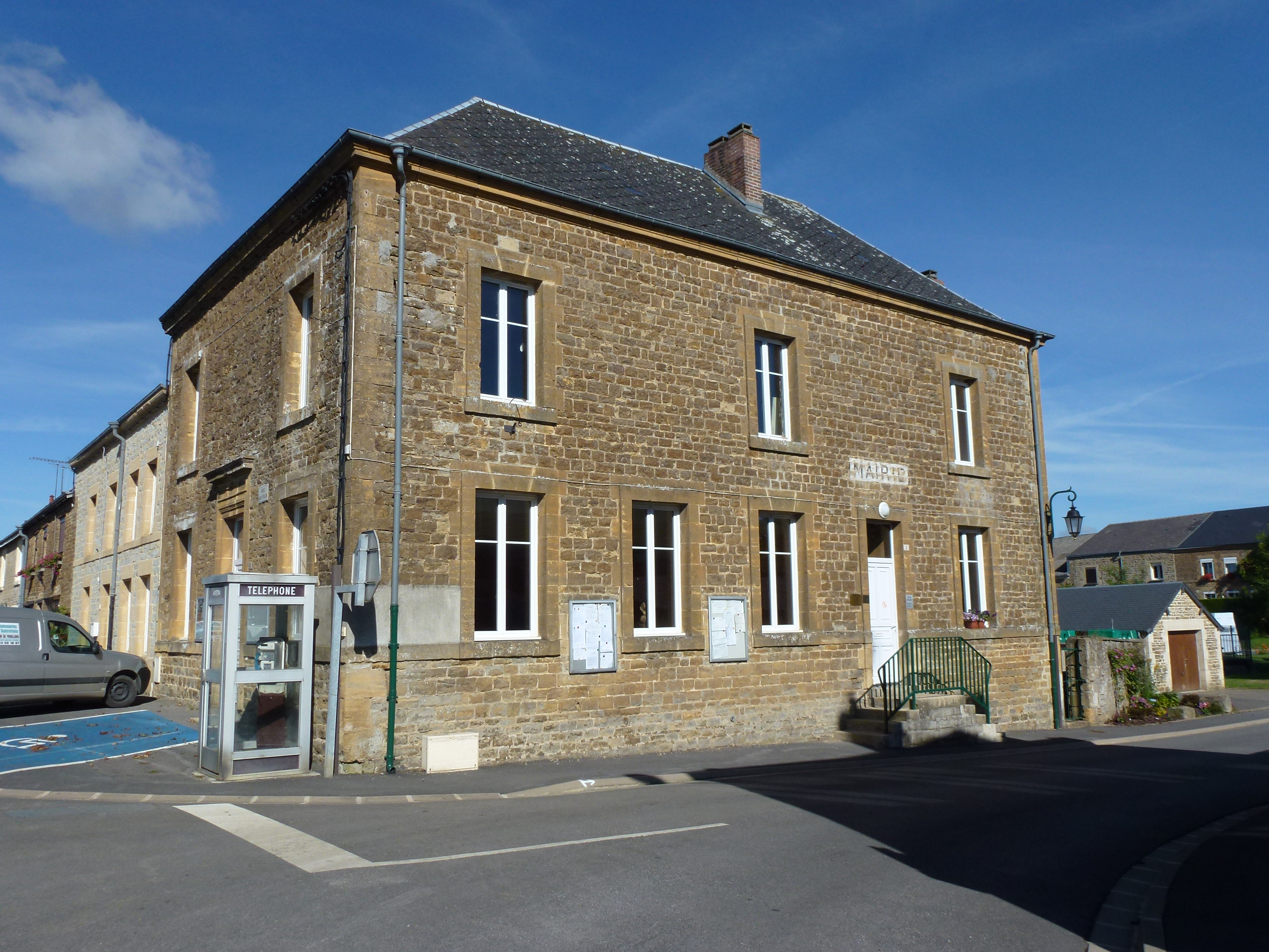 Harcy (Ardennes) mairie